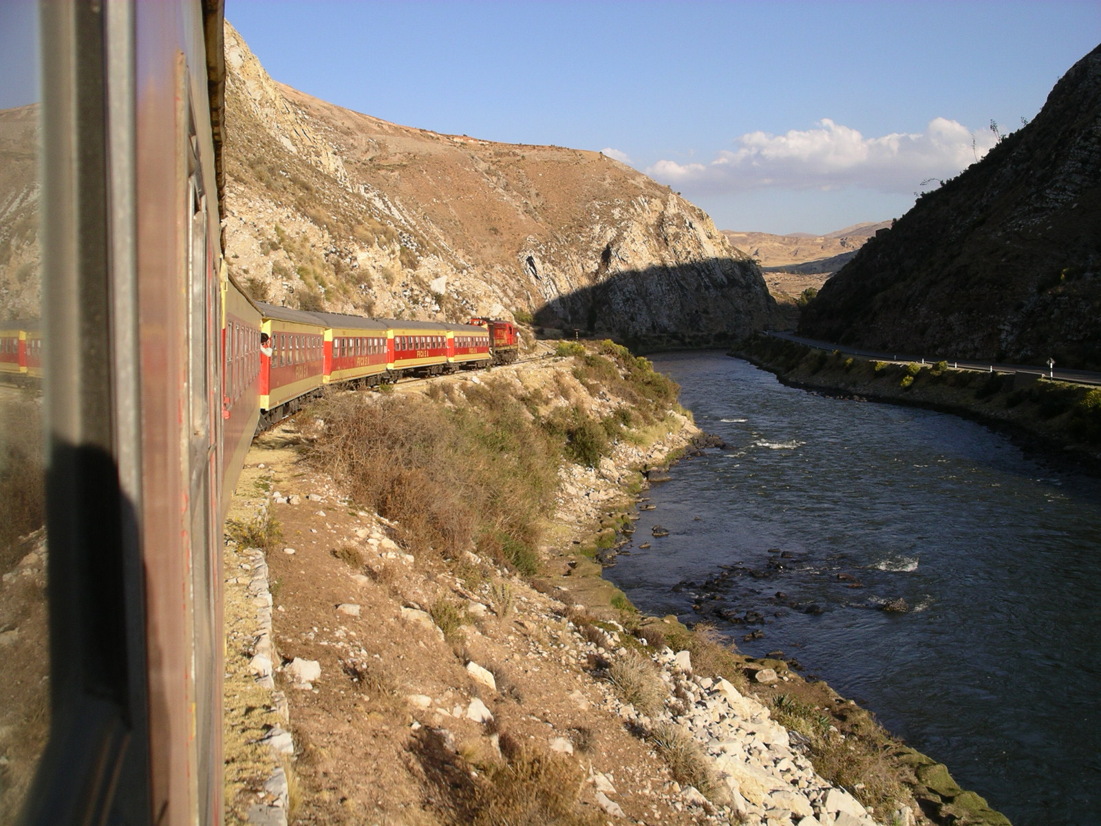 Rio Mantaro, Peru. On its way from Lima to Huancayo the Ferrocarril Central Andino passes the highest point reached by a railway in the Americas (4871m) and plunges then into the valley of the Río Mantaro. This picture has been taken about 20km after the mining city of La Oroya.